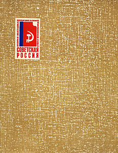 Cover of the catalog of the "Soviet Russia" Art Exhibition of 1965